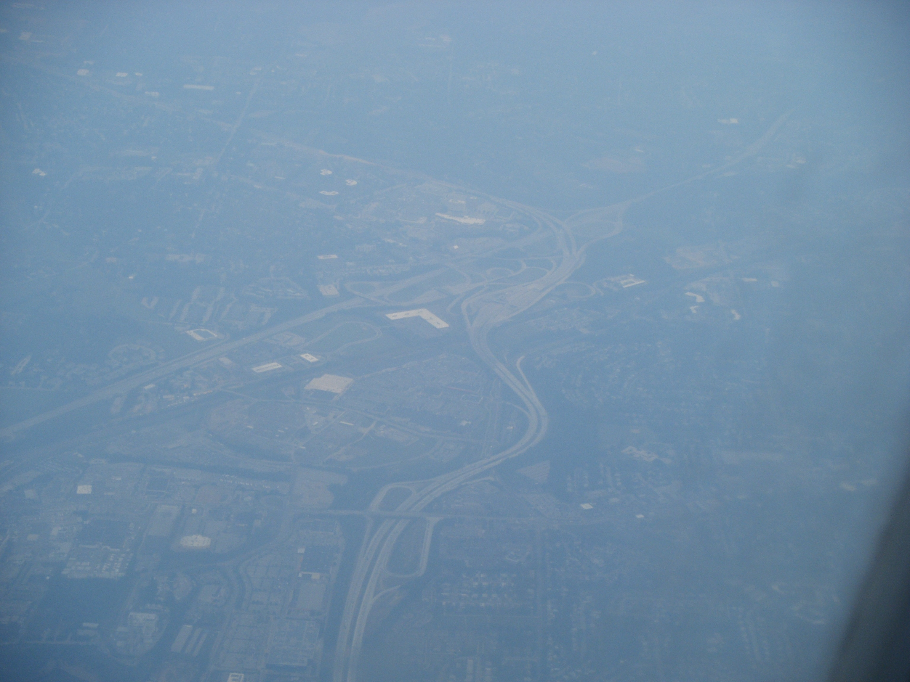 A view of Plymouth Meeting, Pennsylvania taken from an airplane.